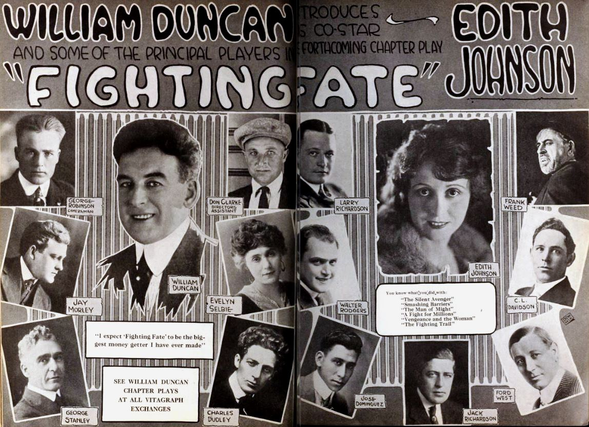 Advertisement for the American action film Fighting Fate (1921) with director and actor William Duncan, cinematographer George Robinson, director's assistant Don Clarke, Jay Morley, Evelyn Selbie, George Stanley (1875 - ?), Charles Dudley, Larry Richardson, Edith Johnson, Frank Weed, Walter Rogers, C.L. Davidson, Jose Dominguez, Jack Richardson, and Ford West (1873–1936), on pages 16 and 17 of the January 8, 1921 Exhibitors Herald.